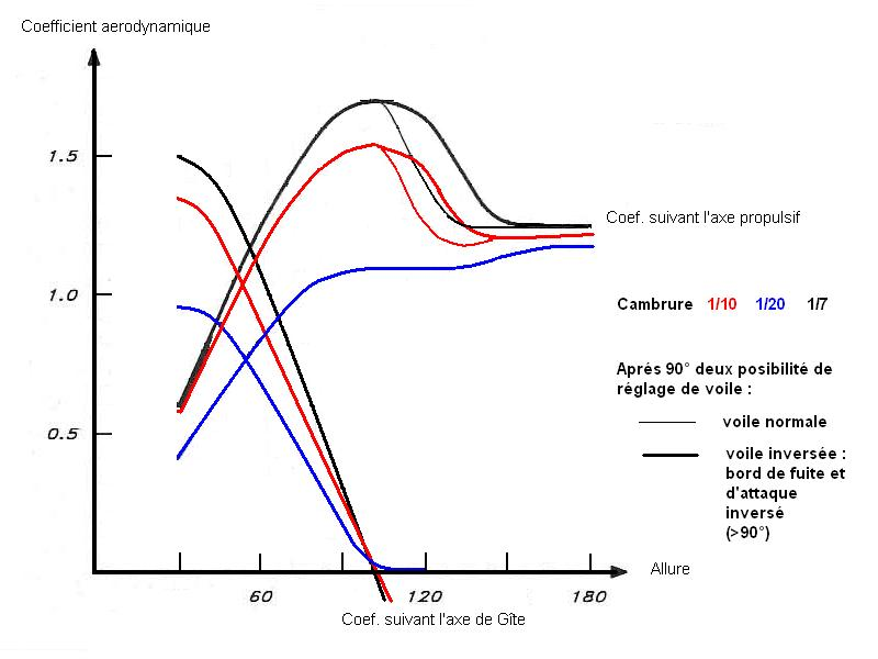 evolution of aerodymamics coefficient through camber of sail.